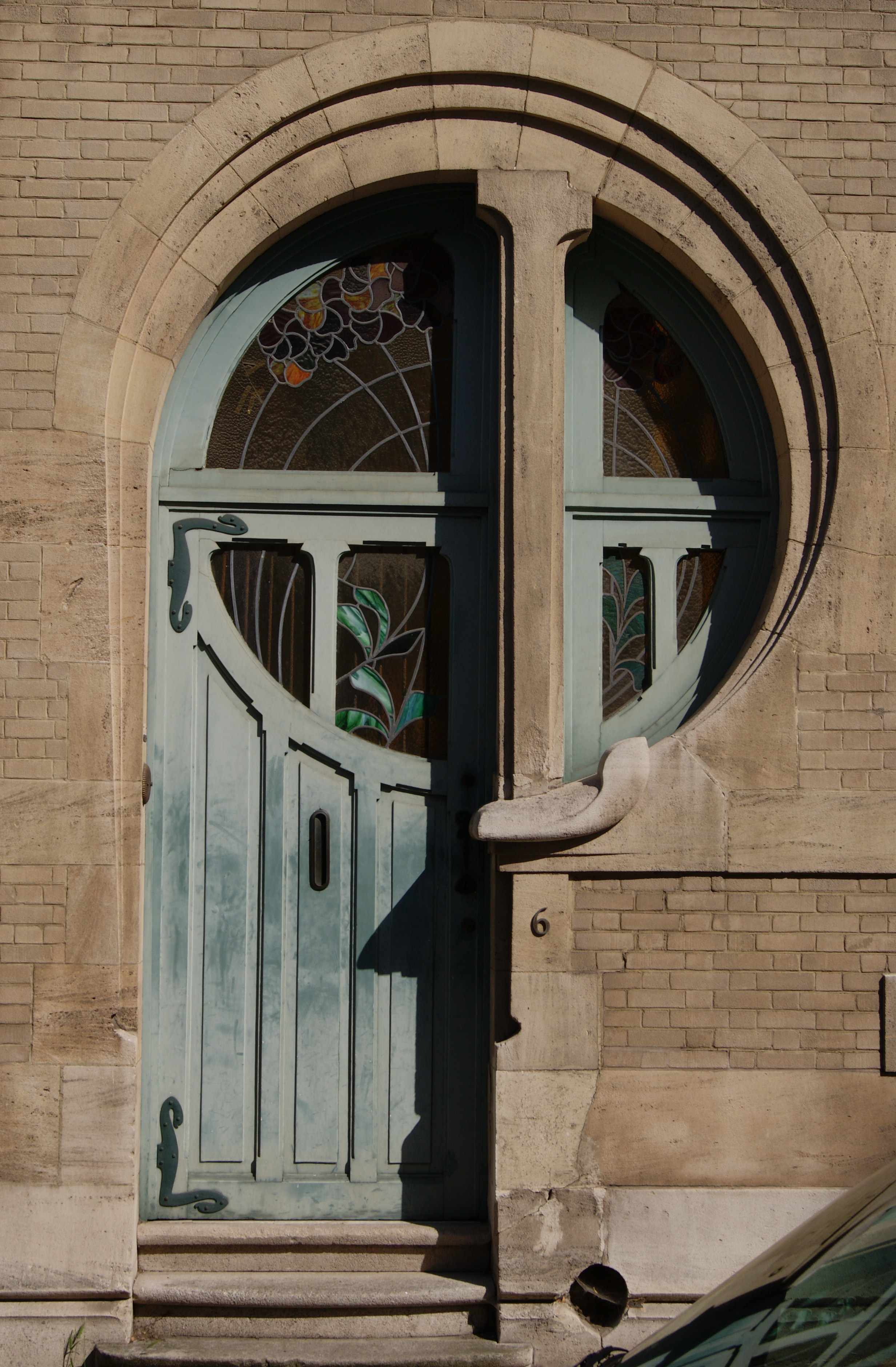 Former studio and home for Clas Grüner Sterner. Built in 1902 by Ernest Delune. Style: Art Nouveau. Address: ue du Lac 6 Rue de la Vallée 5, Ixelles, Brussels, Belgium. page 59.